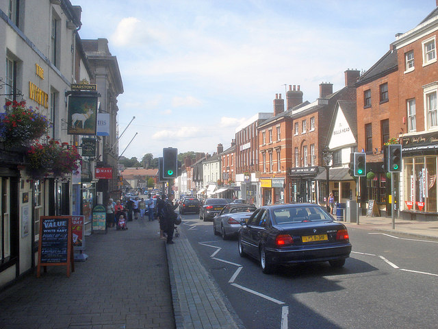 Ashby town centre and the White Hart Looking west down Market Street, the main street of Ashby-de-la-Zouch. On the left is The White Hart, once 'the bawdiest public house in the Midlands', and where a glass panel in the floor reveals a pit where an 18th-century landlord once kept a bear that he would set on rowdy customers.